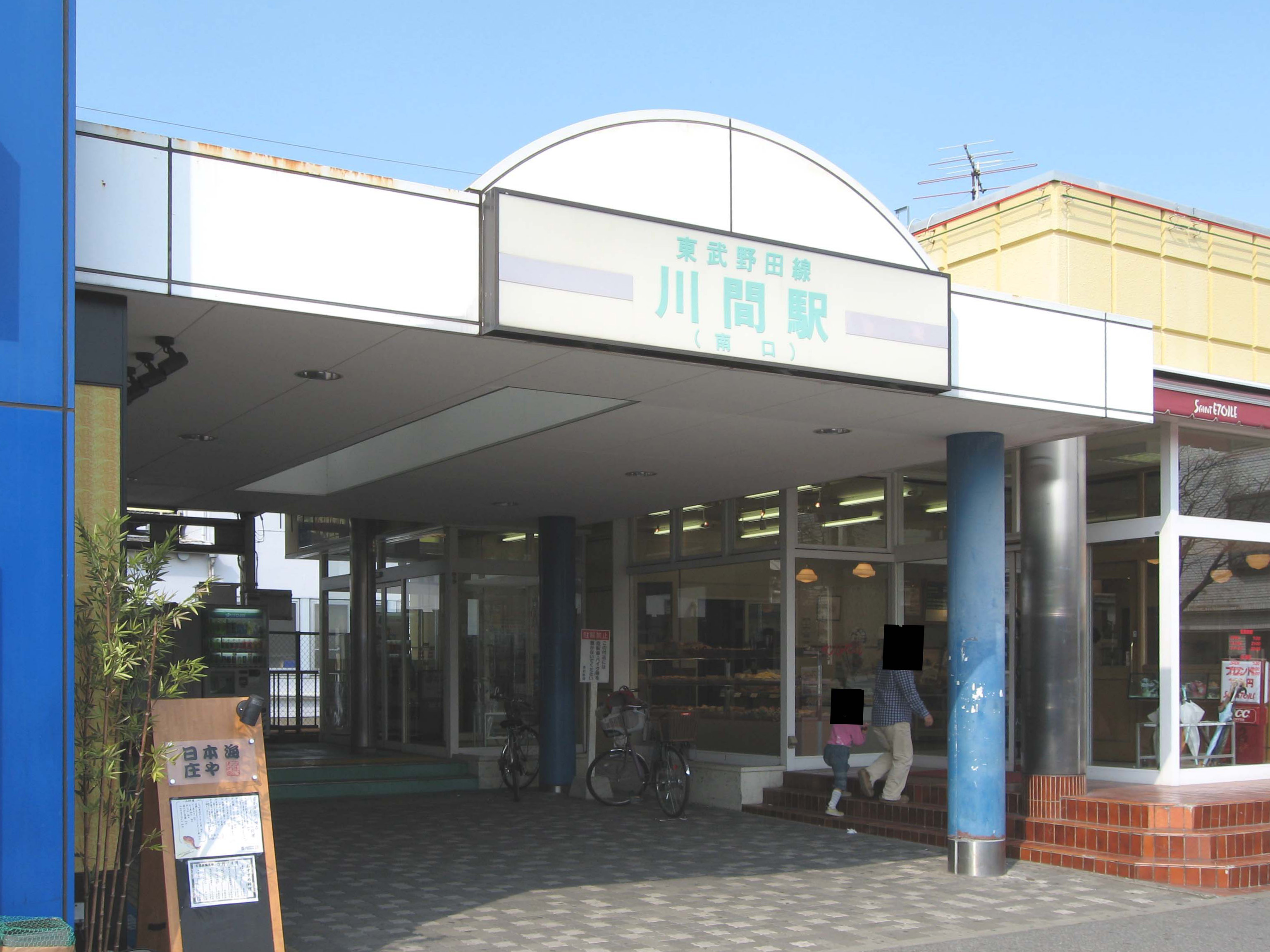 The south entrance to Kawama Station on the Tobu Noda Line in Chiba Prefecture, Japan